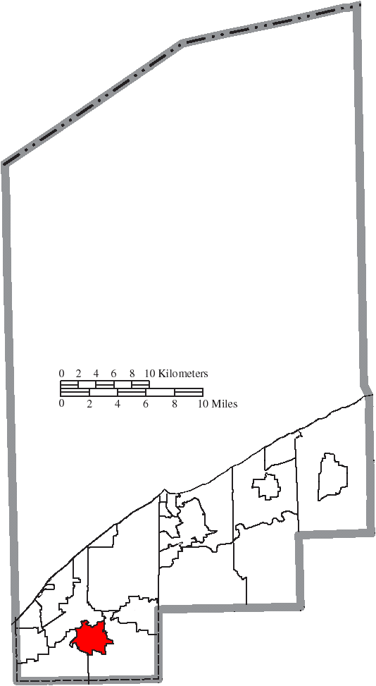 Map of the municipal and township boundaries of Lake County, Ohio, United States, as of the 2000 census, with the location of the village of Waite Hill highlighted. Township borders are shown only in unincorporated areas in order to differentiate incorporated and unincorporated areas more clearly.